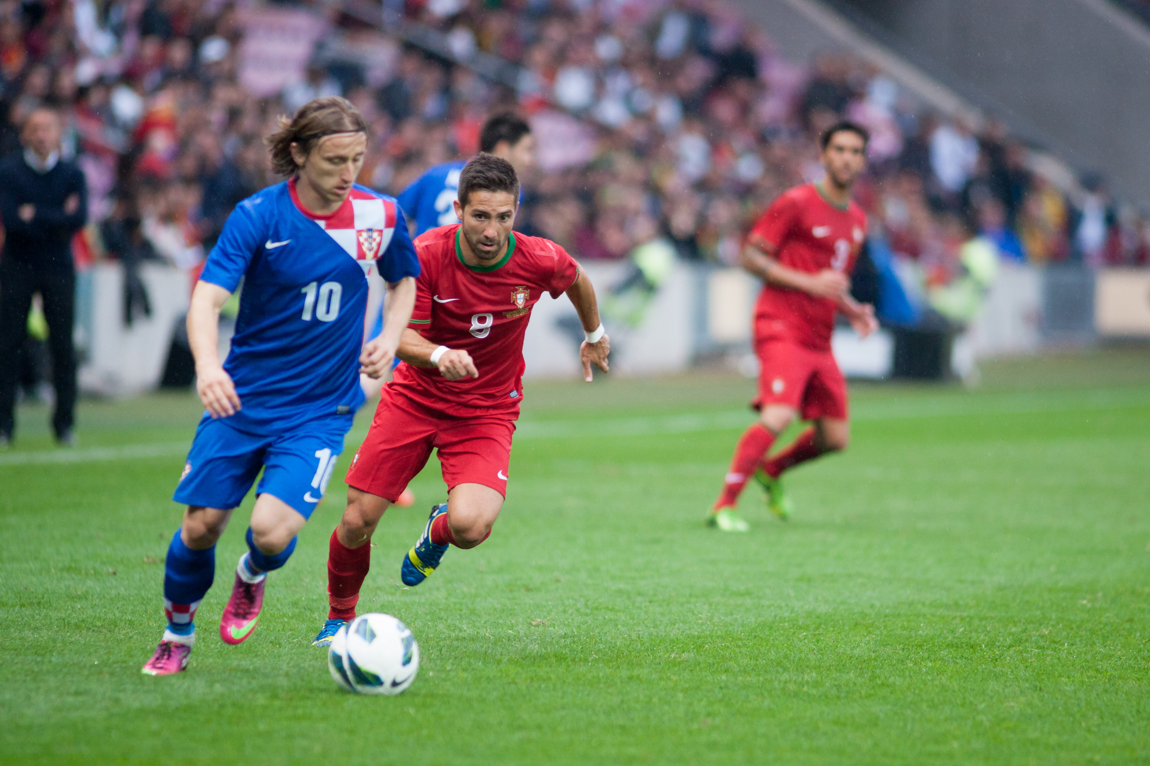 Croatia vs. Portugal, 10th June 2013